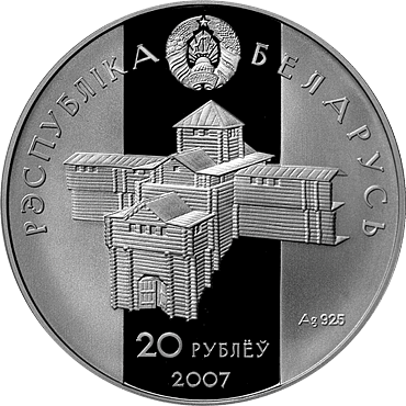 "Gleb of Mensk" Silver commemorative coins, denomination: 20 rubles